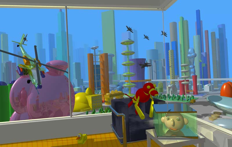 3D render used on the cover of Biblia #6, December 1998.